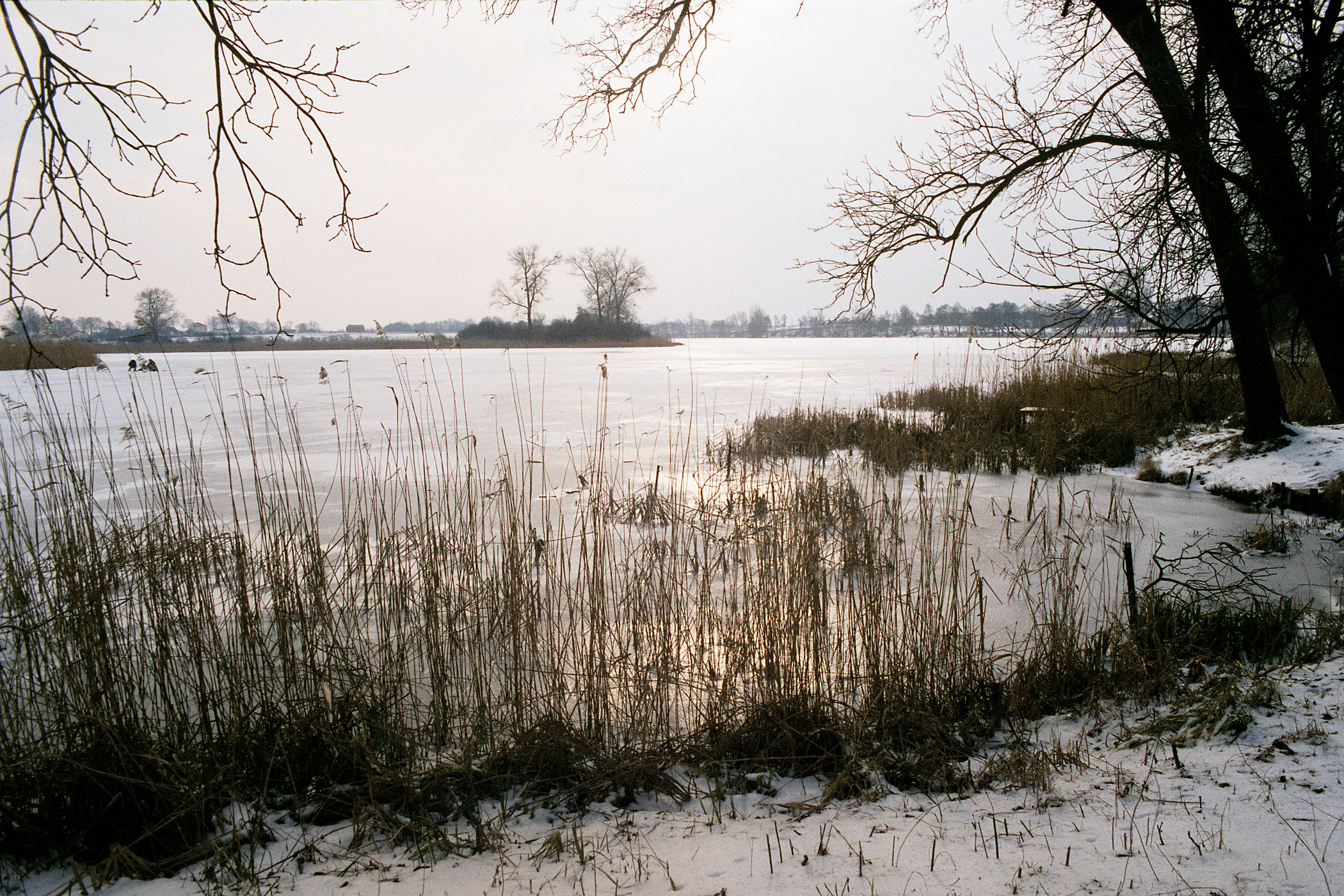 Mogilno, Mogileńskie Lake in winter